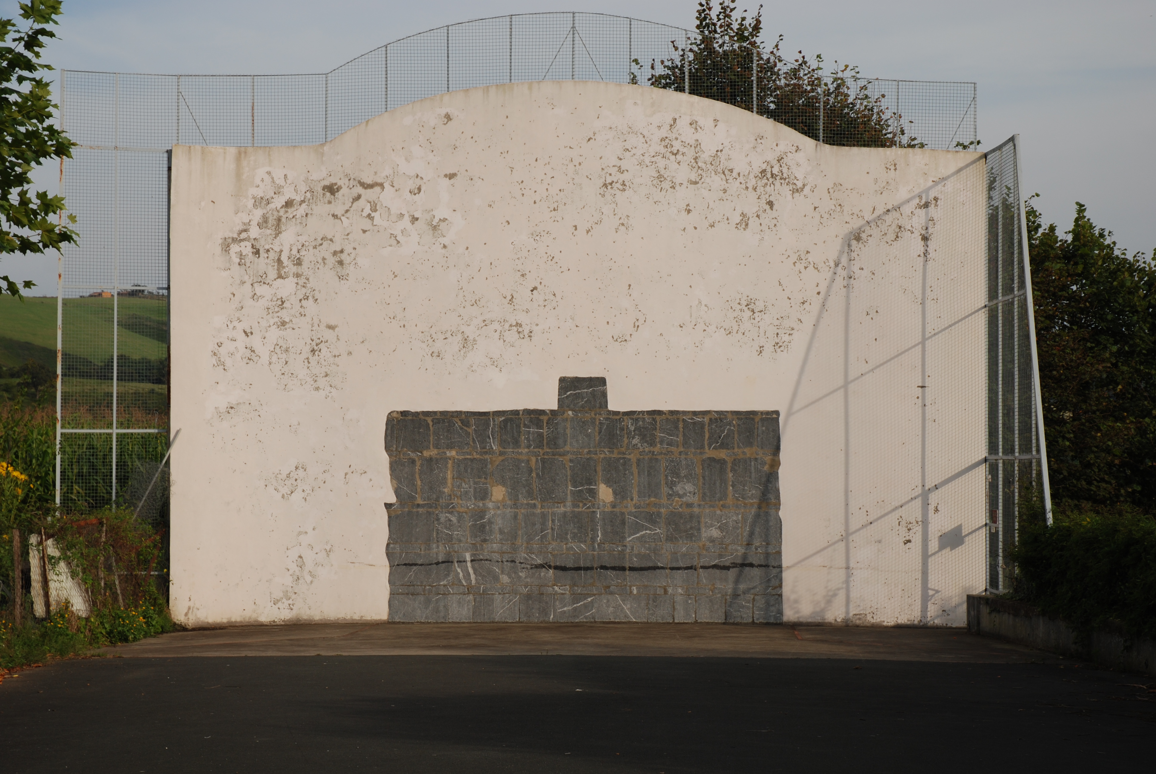 Isturits, fronton place libre